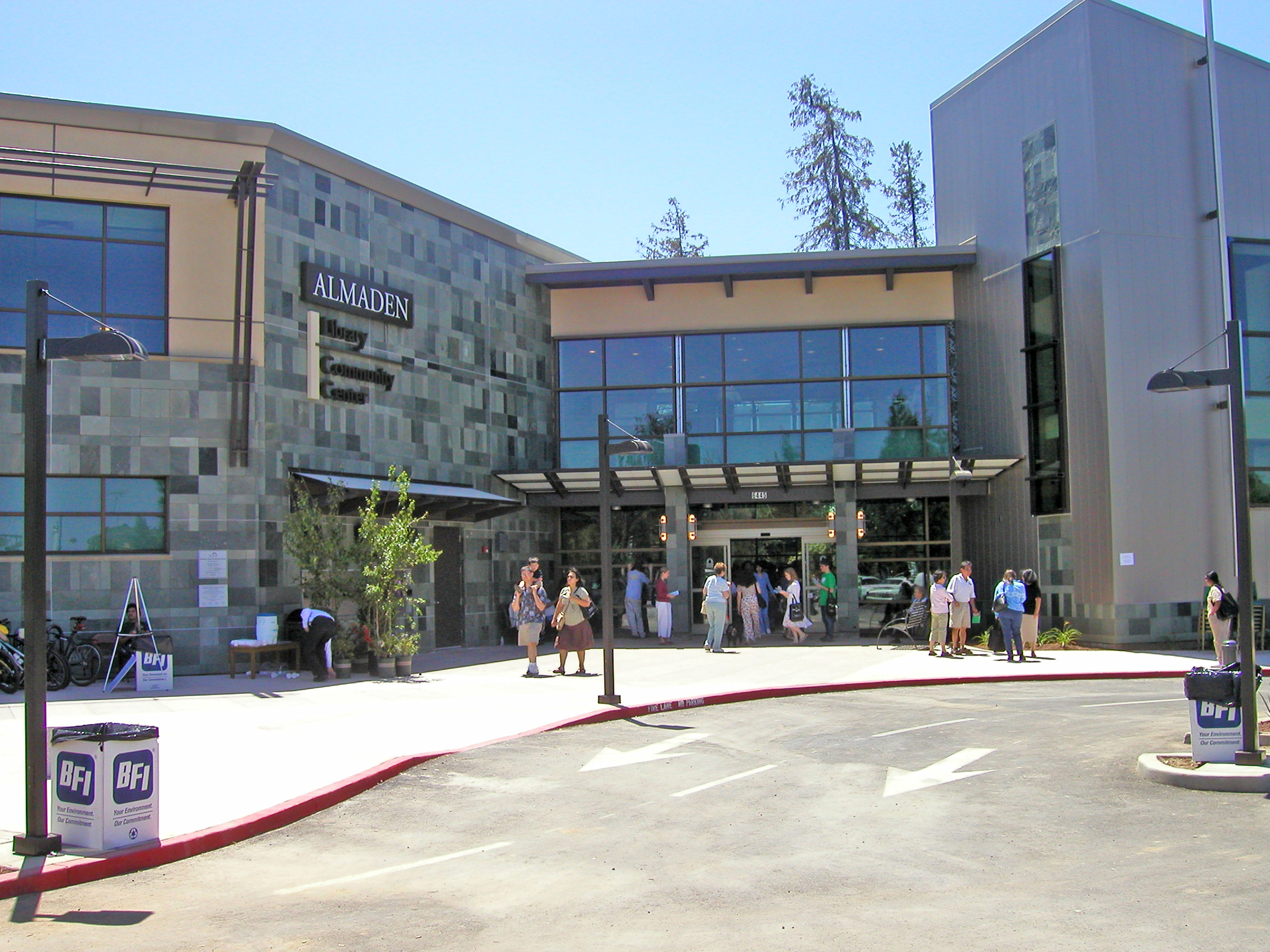 Branch Almaden. Date: 5/13/2006. Description.: Almaden Branch exterior.